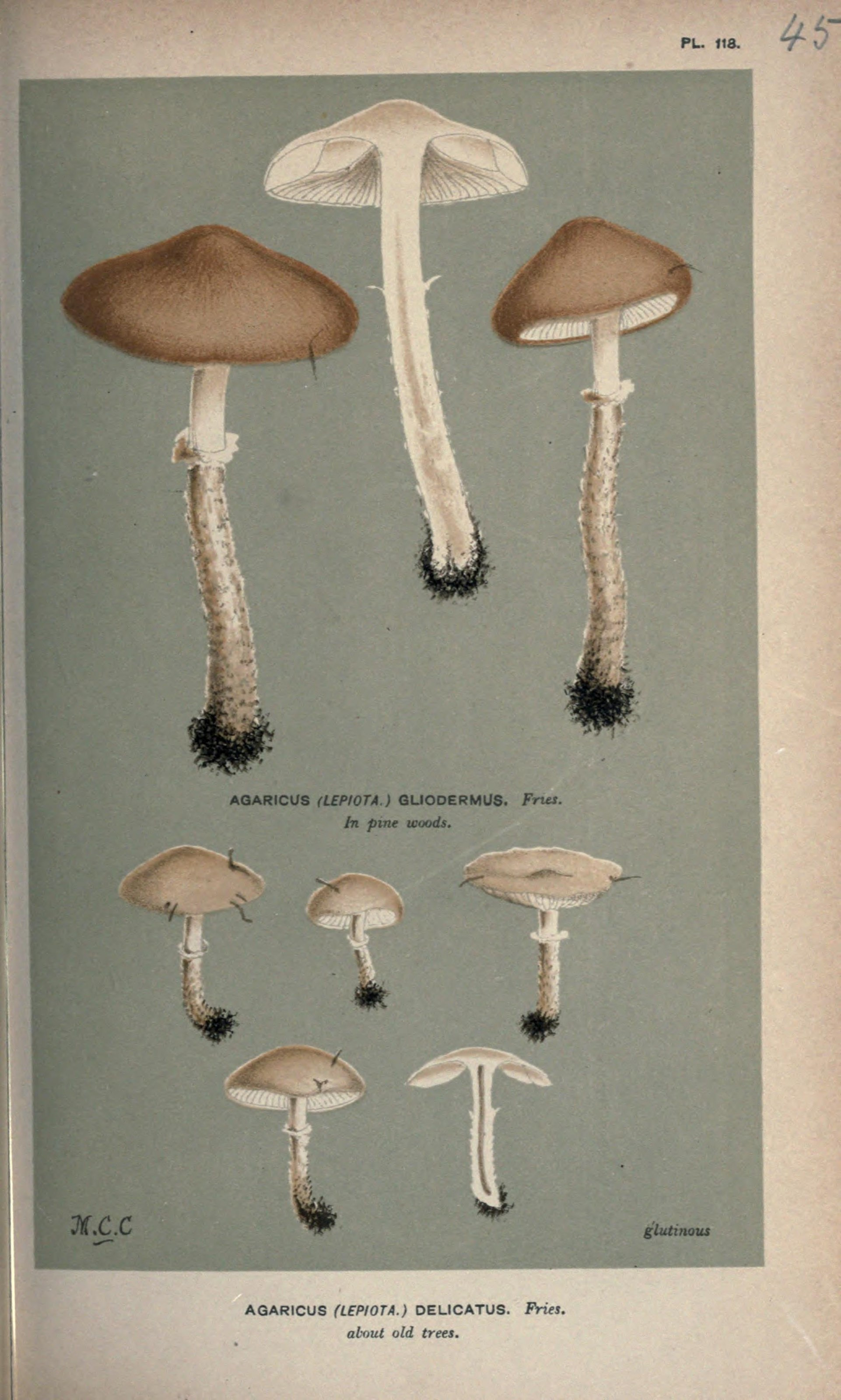 PL. lis. / glutinous AGARICUS (LEPIOTA.) DELICATUS. Friei. about old trees.